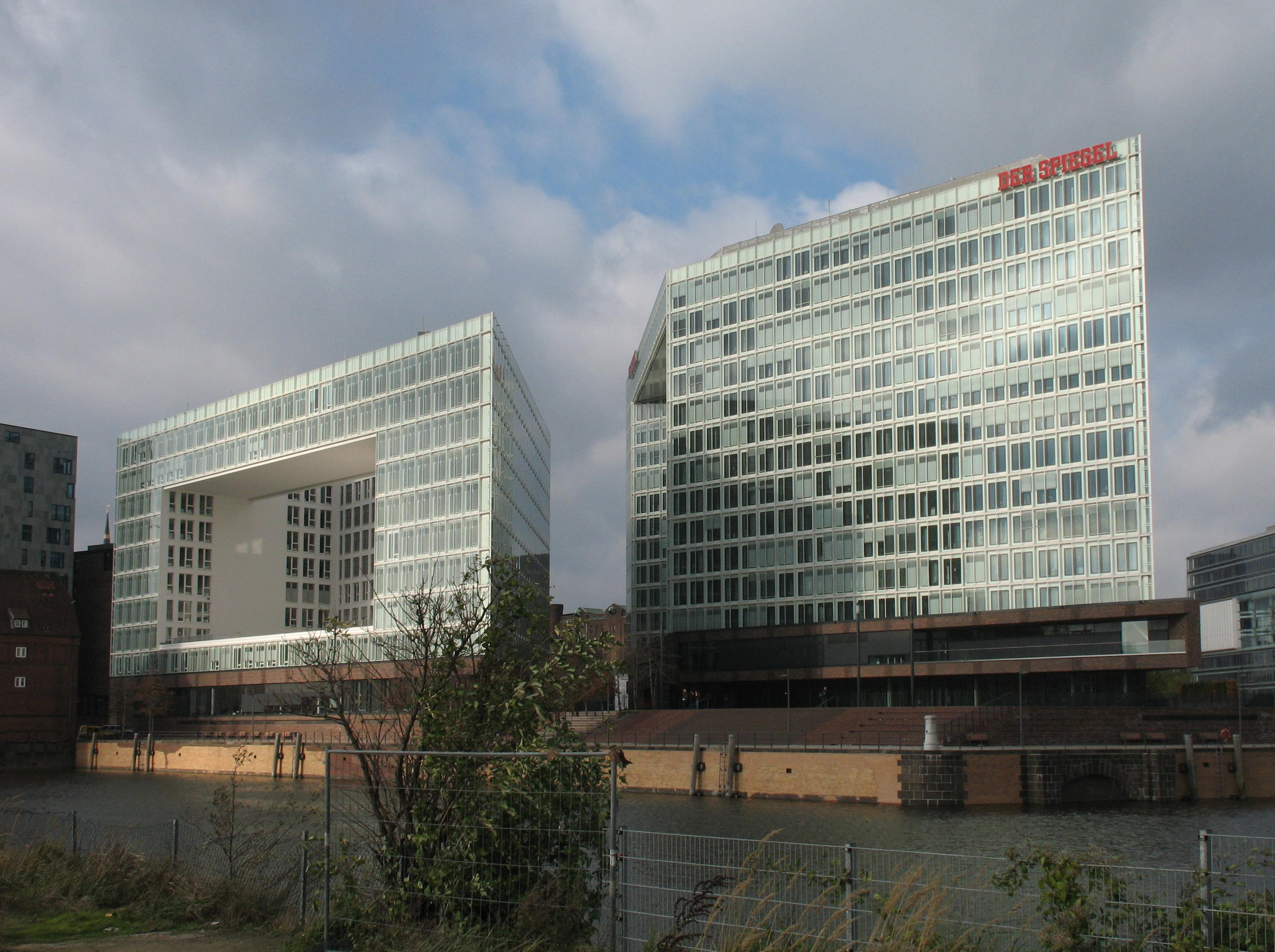 Spiegel headquarters in Hamburg-HafenCity, Germany